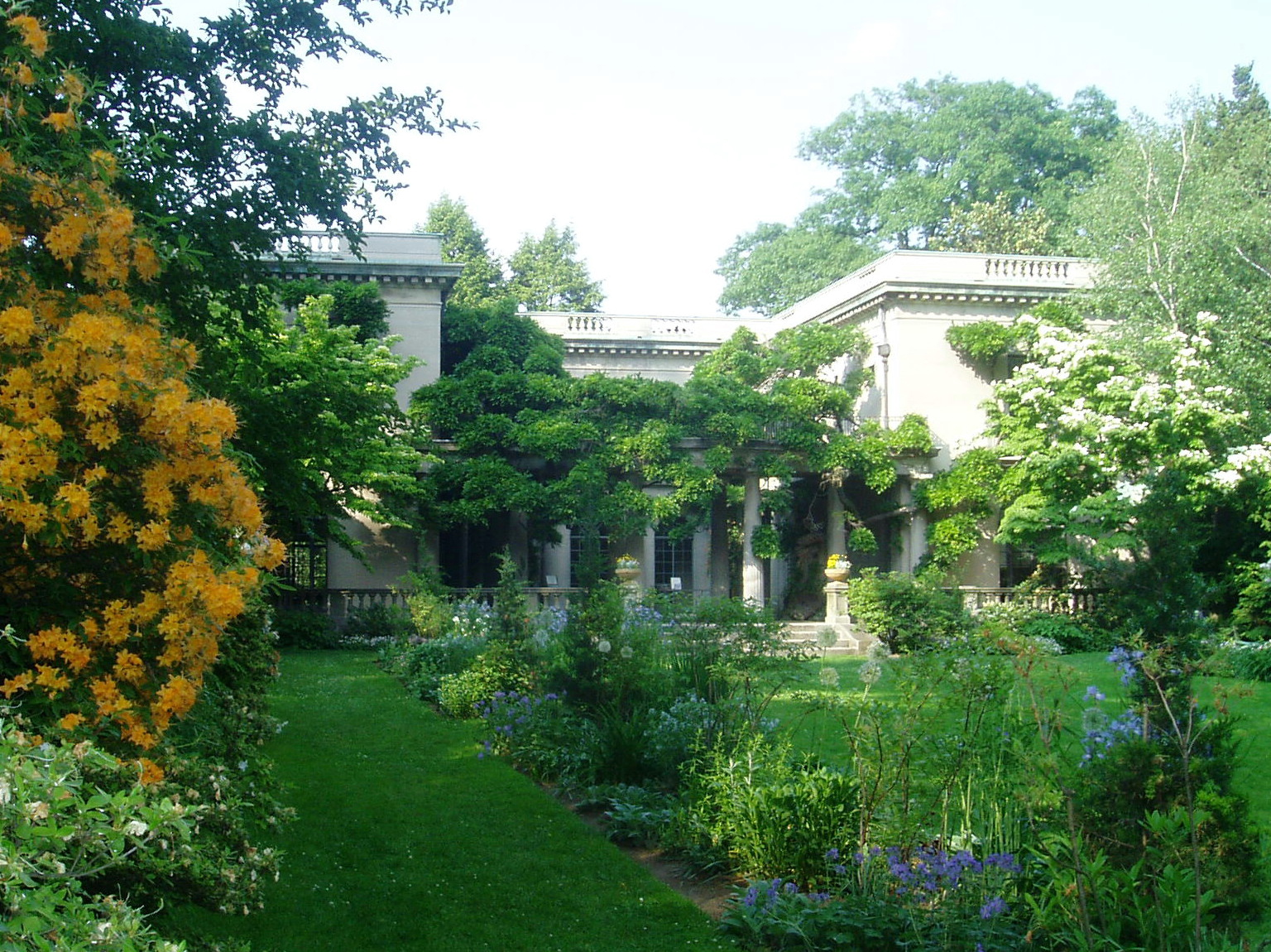 Van Vleck House and Gardens, Montclair, NJ May 2006